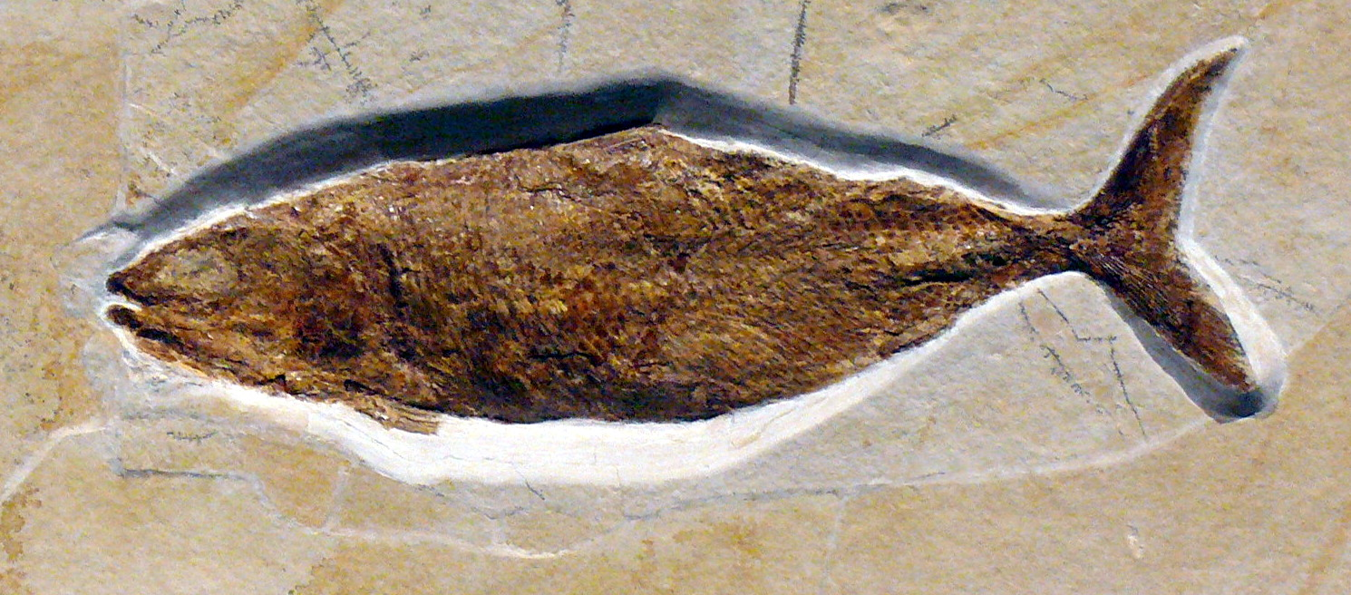 Pholidophorus AGASSIZ, 1832, from Solnhofen, Germany